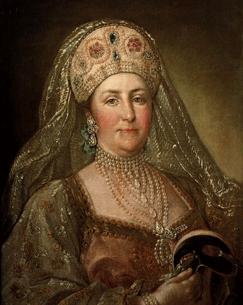 The old Russian dress of the Empress with a kokoshnik, a sarafan and magnificent sleeves is a fancy dress in this portrait. (cf. Catherine holds an ordinary carnival mask in her hands).